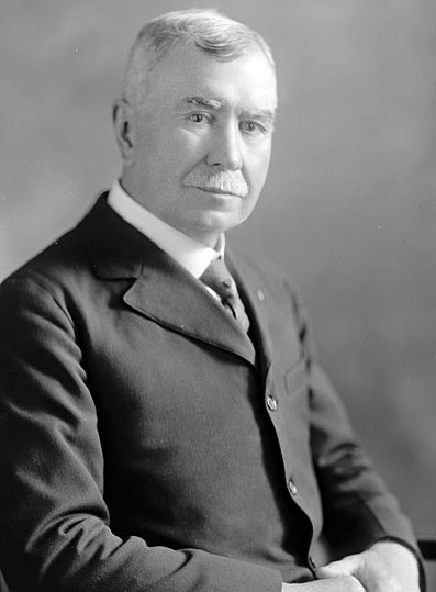 Néstor Montoya, US Representative from New Mexico